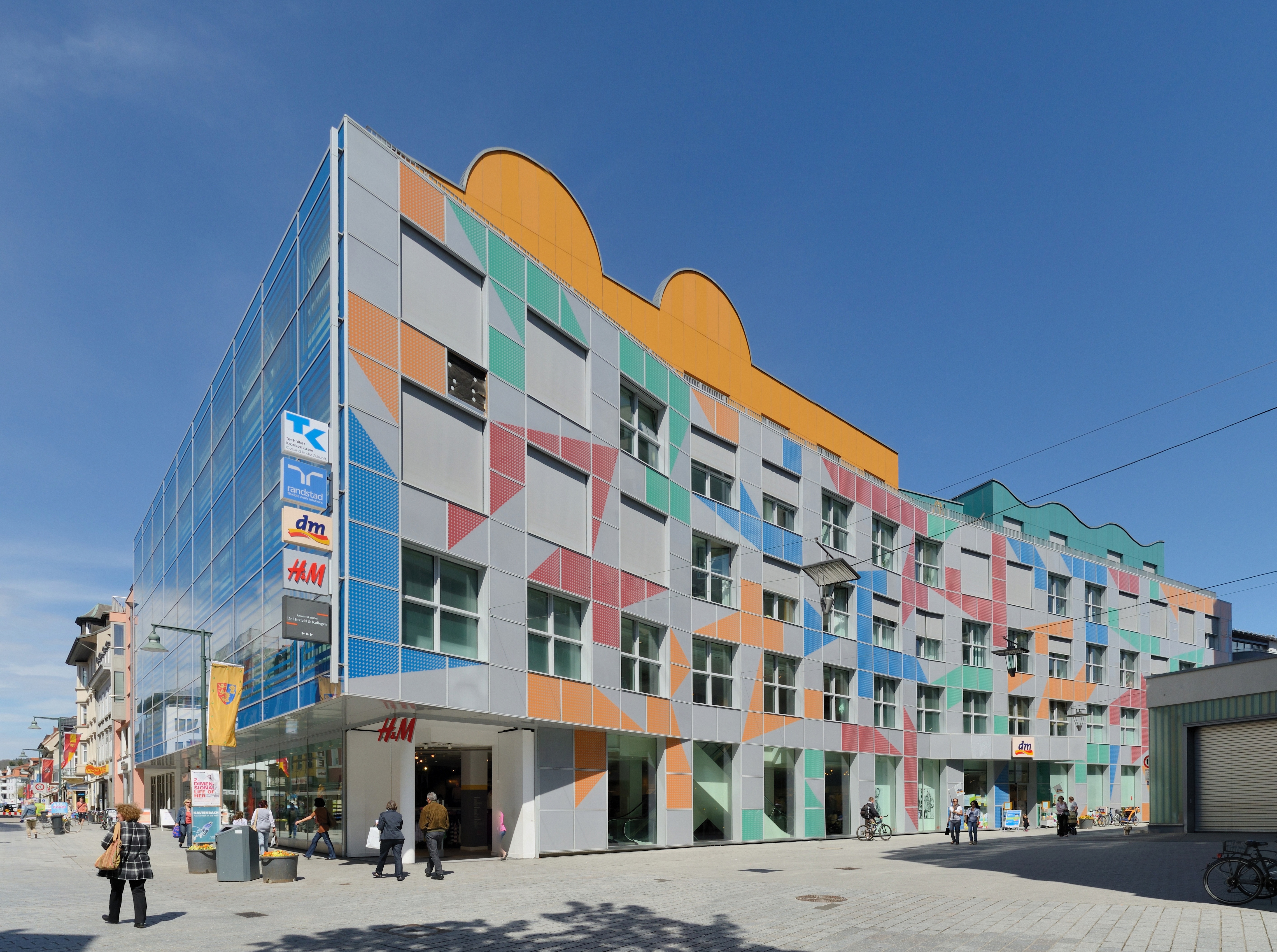 Lörrach: Galleria Mendini